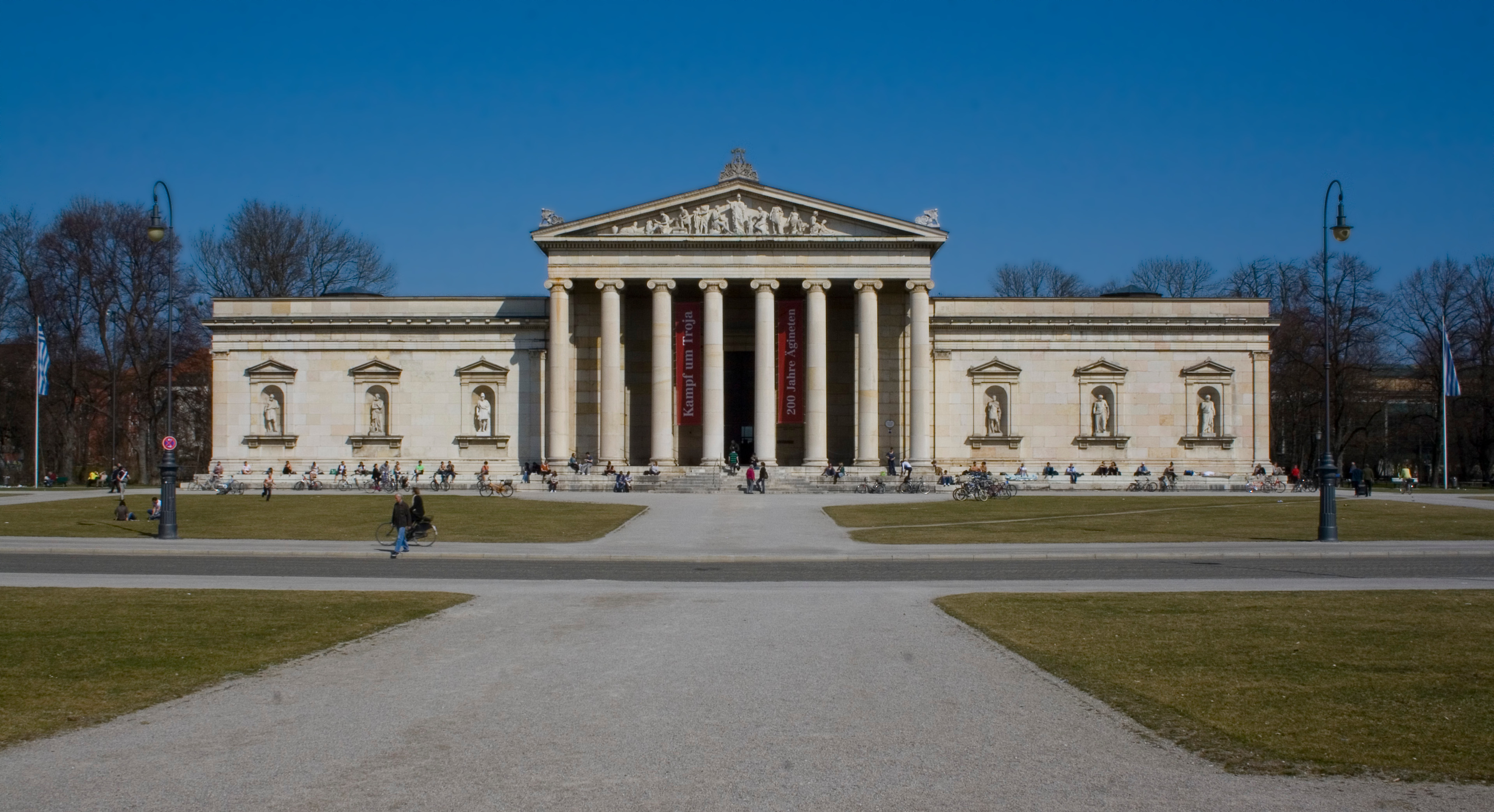 Glyptothek, Königsplatz, Munich, Germany